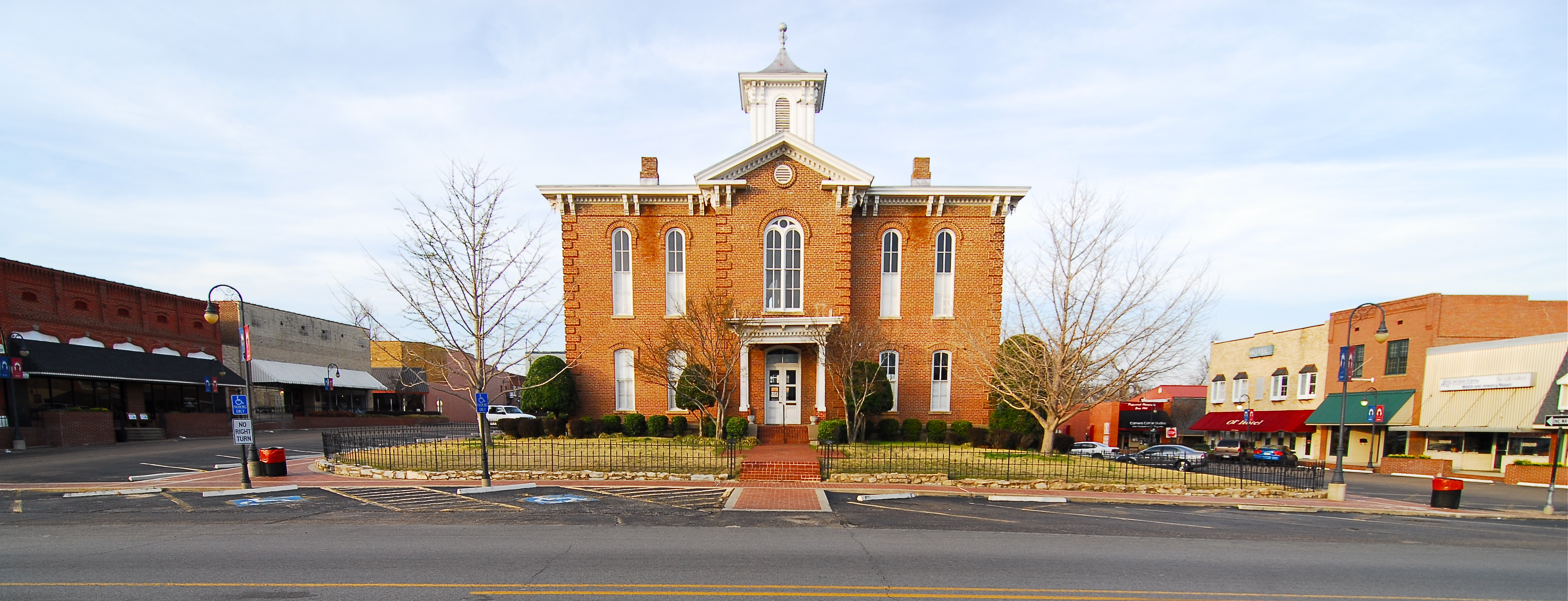 Part of historic downtown Pocahantas